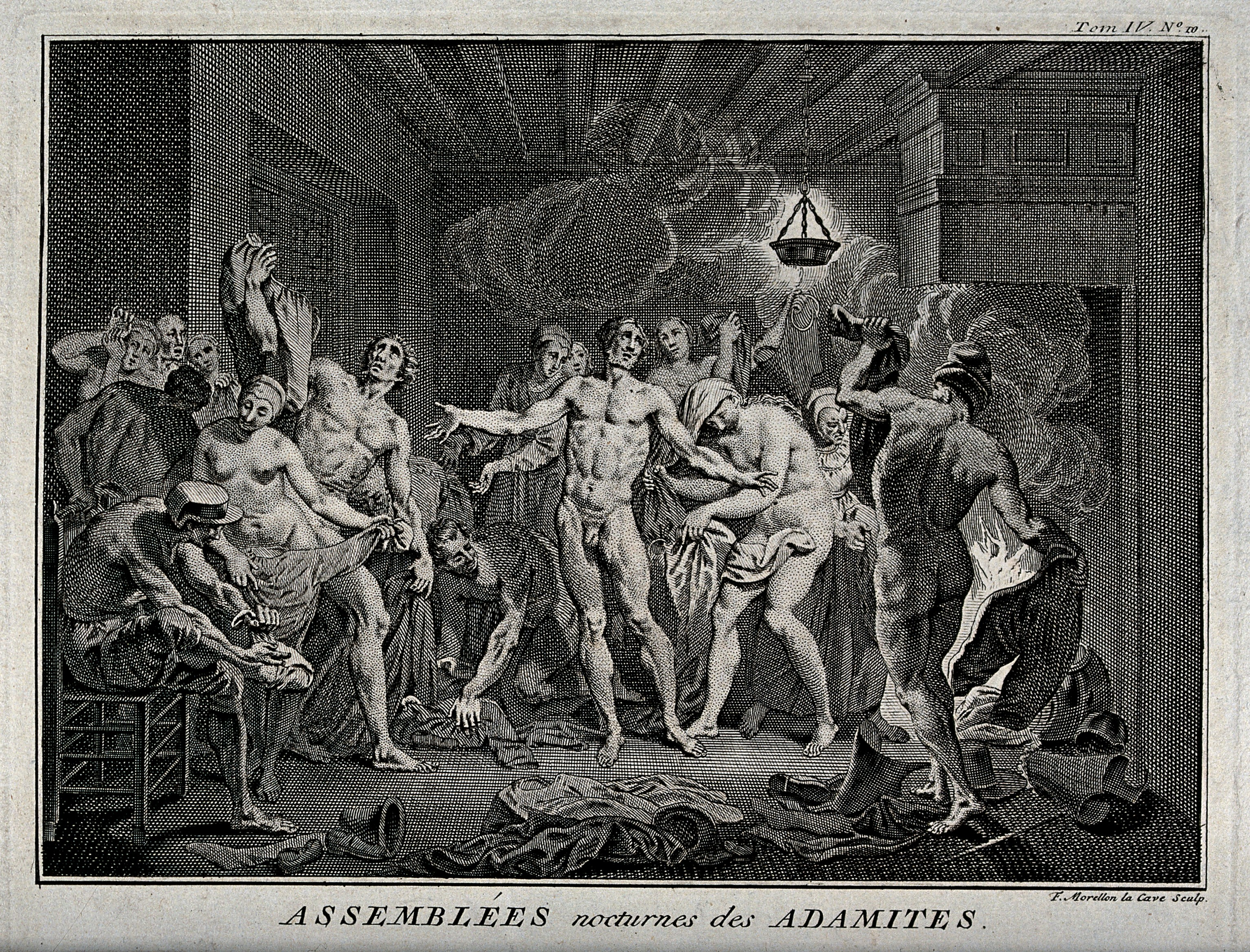 A nocturnal assembly of the Adamites begins; everybody takes their clothes off. Etching by F. Morellon la Cave. Iconographic Collections Keywords: Francois Morellon de La Cave